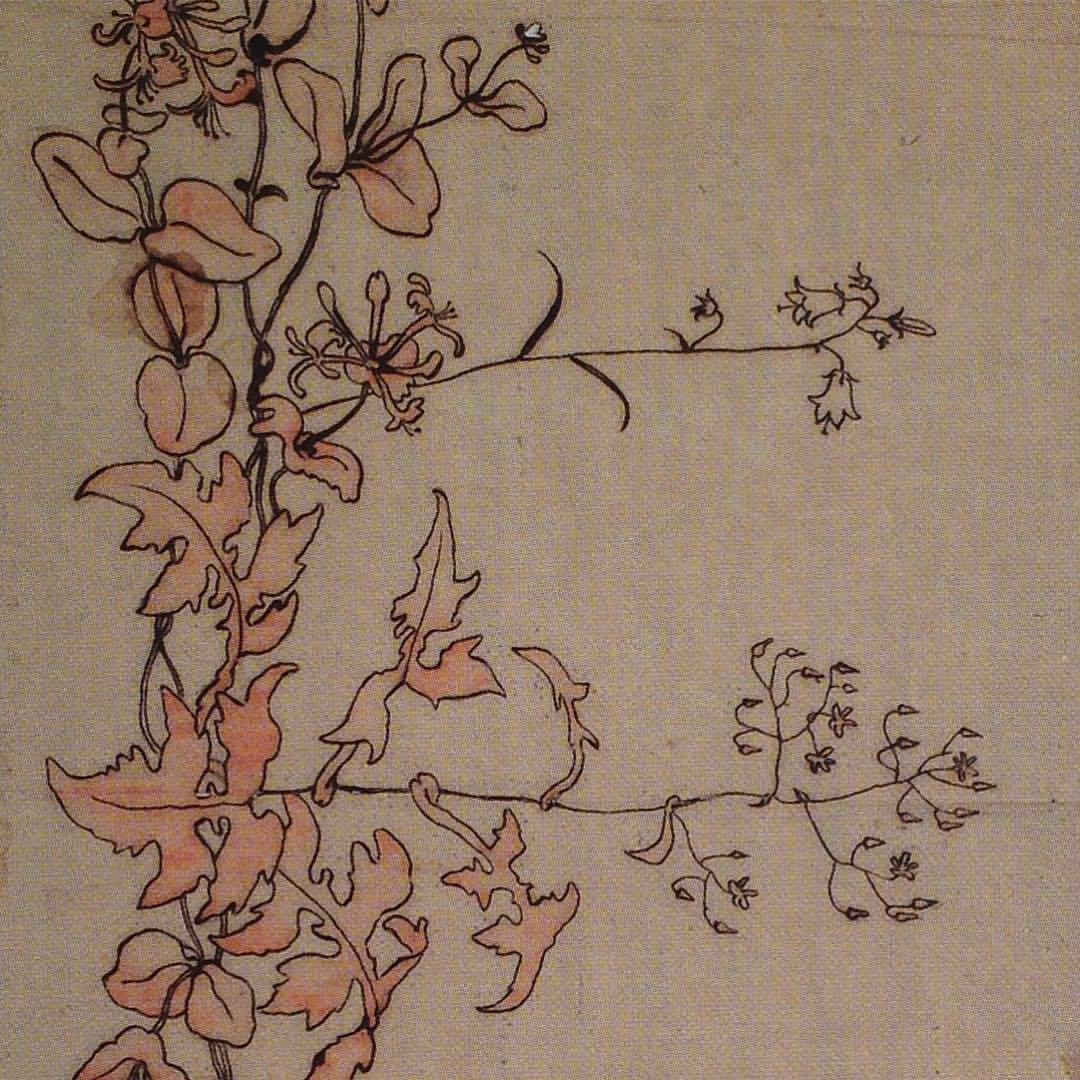 P.C. Skovgaard's design for his bride Georgia's wedding veil.